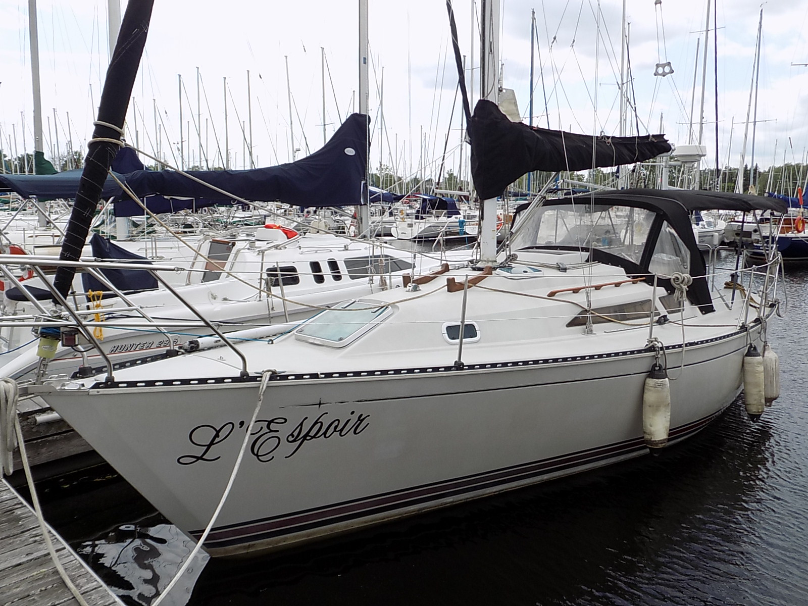 A C&C 30 Mark II sailboat named Espoir (en: Hope).